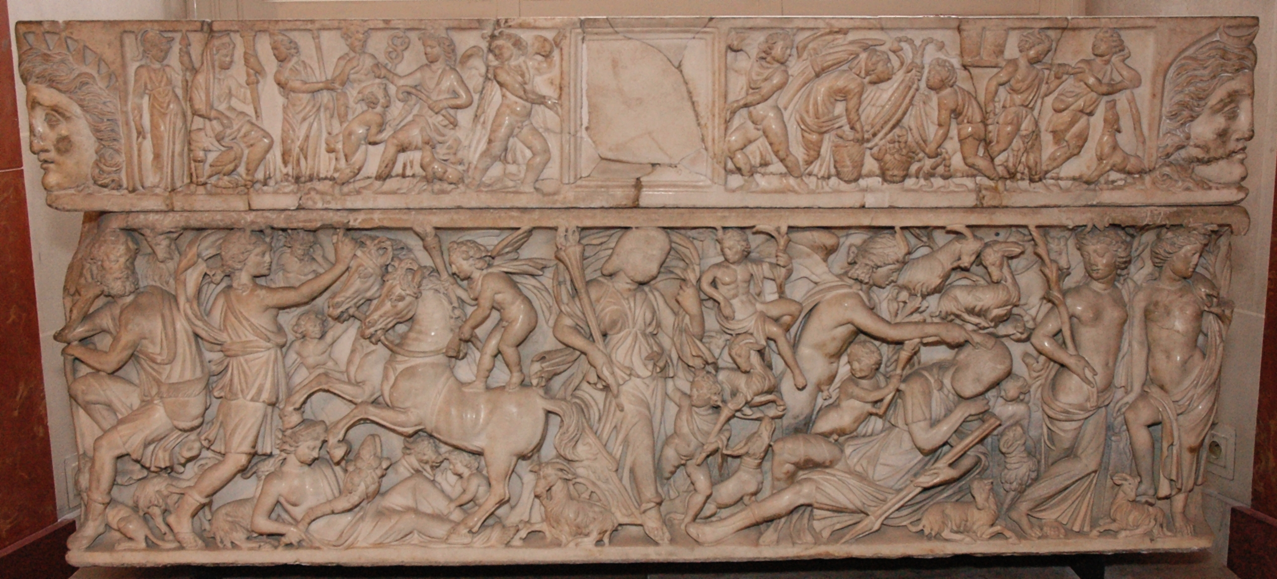 Endymion sleeping, detail from a scene with the legend of Endymion and Selene. Panel of a marble sarcophagus, early 3rd century AD. Found in 1806 at Saint-Médard d'Eyrans, France.